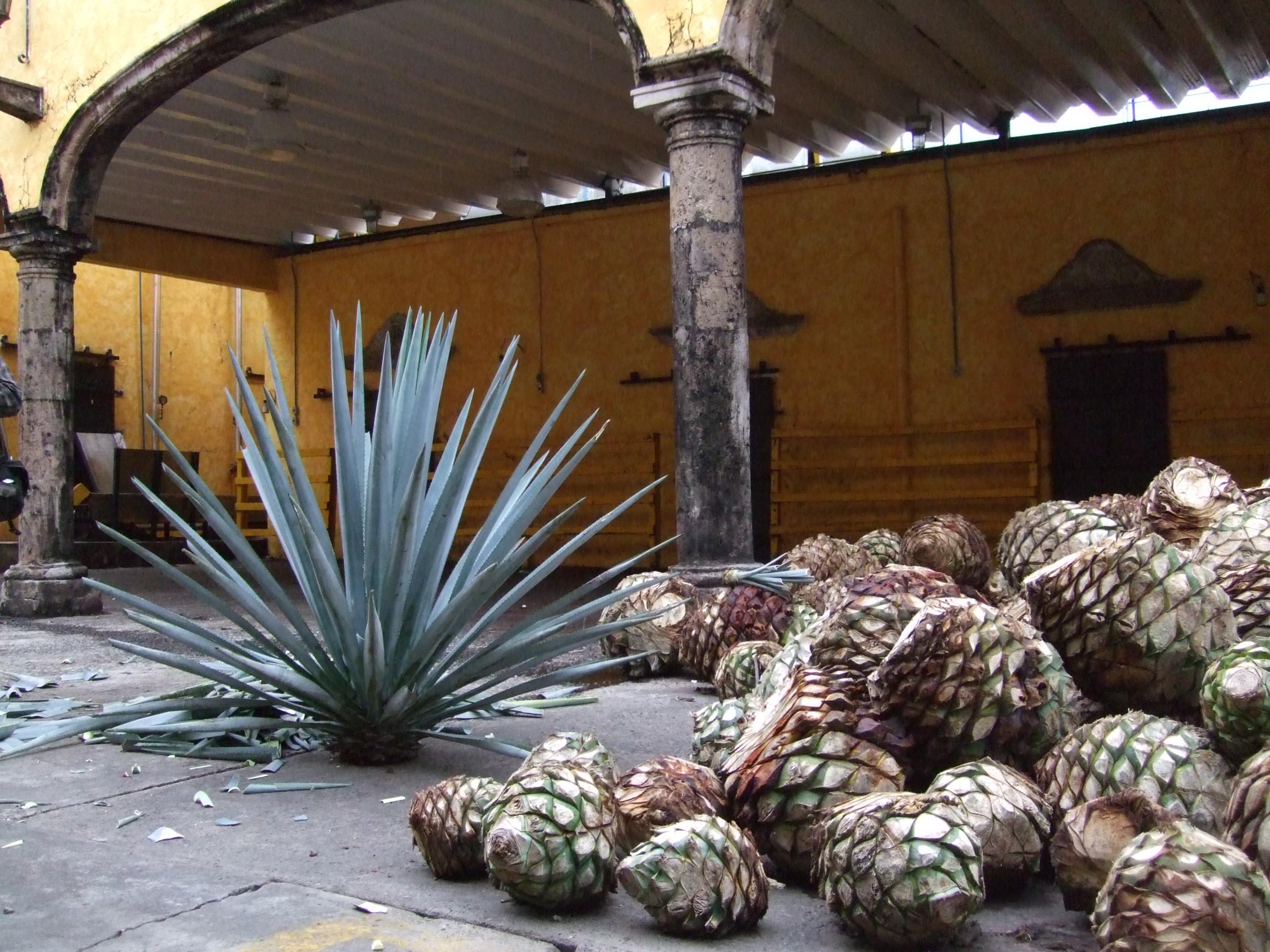 agave ,maguey